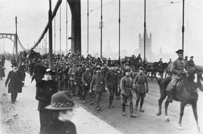 Cologne, return of the German troops. Crossing of the Rhine at Cologne.